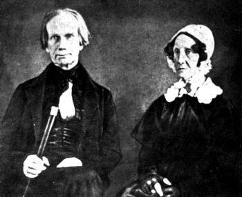 Henry Clay and his wife, the former Lucretia Hart